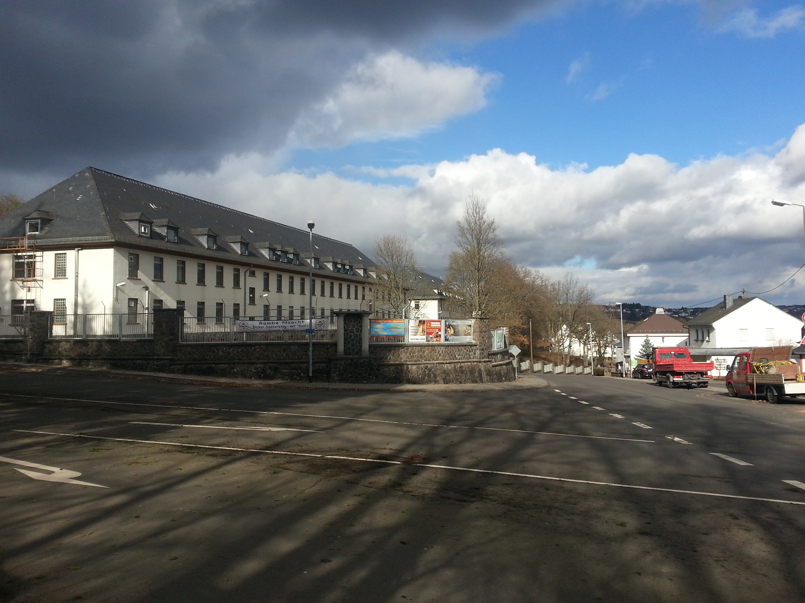 Saarstraße in Algenrodt Idar-Oberstein